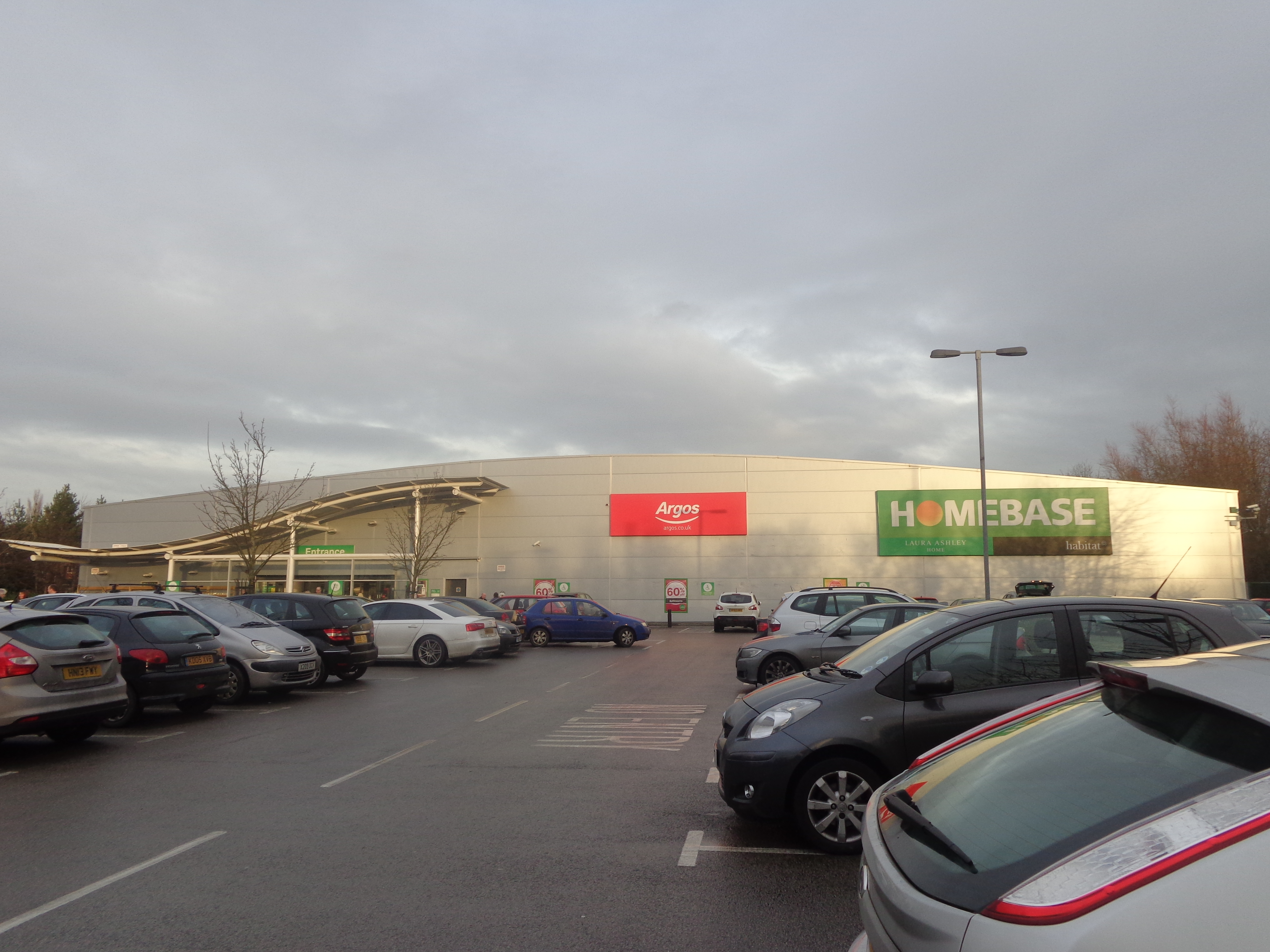 Homebase and Argos, Moor Allerton District Centre, Leeds, West Yorkshire. Taken on the afternoon of Wednesday the 31st of December 2014.